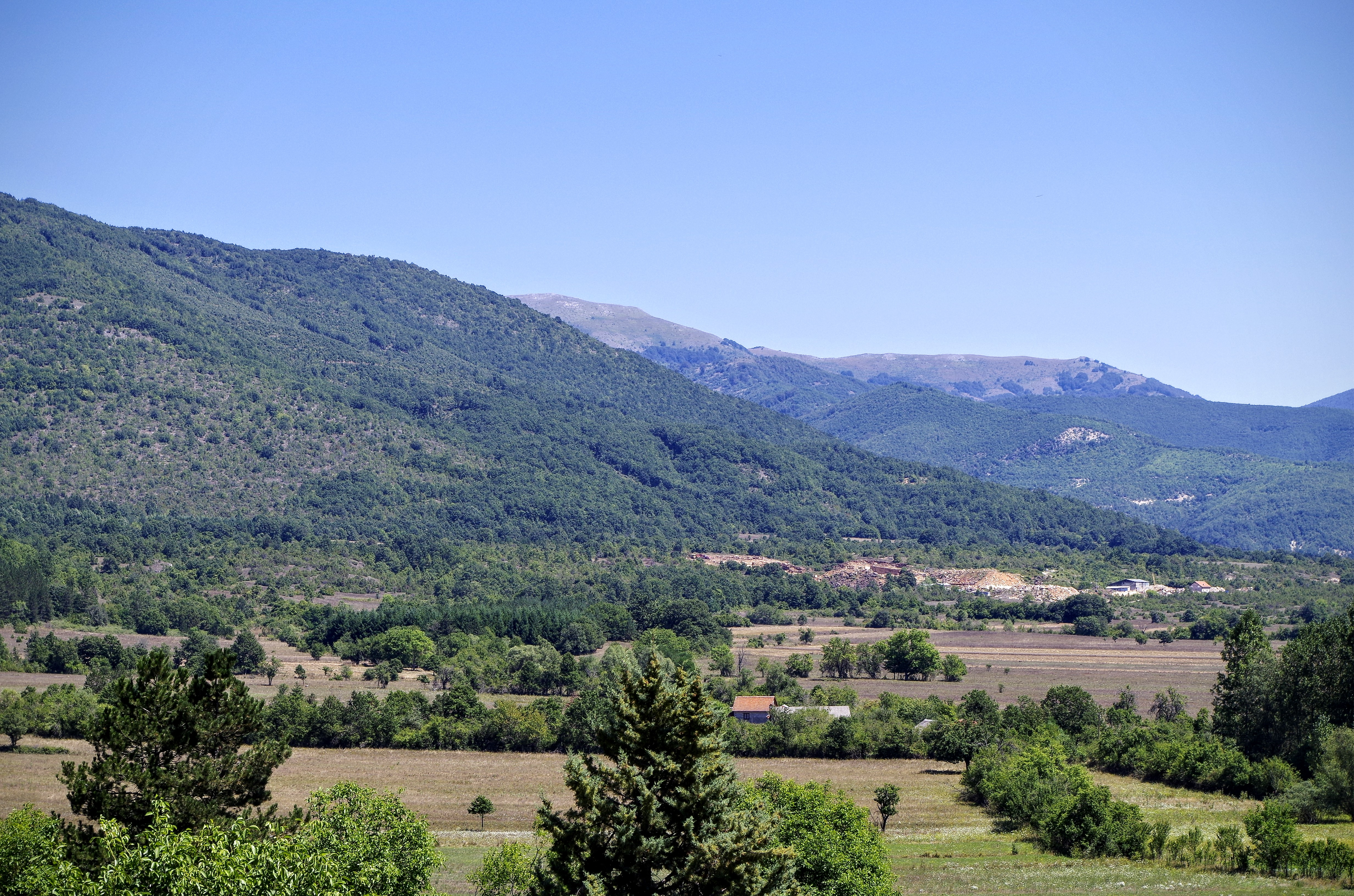 View of the mine Velmej, Macedonia